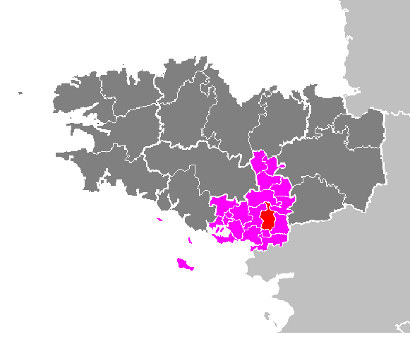 Maps of arrondissements and cantons of France: Arrondissement de Vannes - Canton de Rochefort-en-Terre.PNG